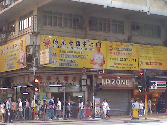 Advertising hoarding on King's Road, Hong Kong for an agency specialised in foreign domestic helpers